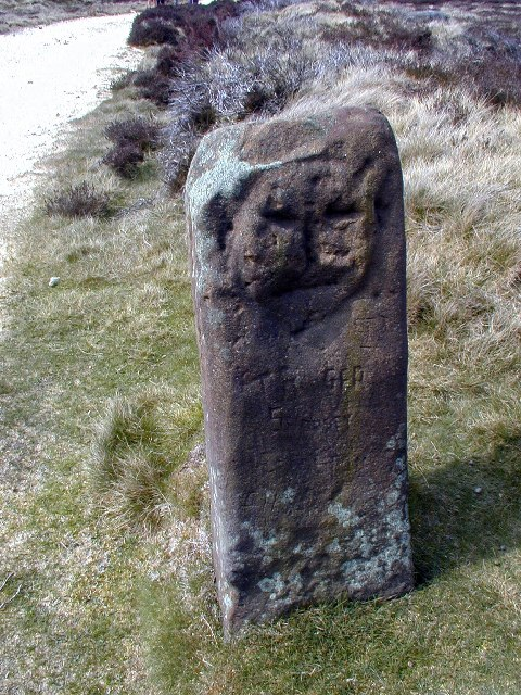 The Face Stone. The stone is at the junction of tracks on the Cleveland Way, standing at the old Cleveland boundary. It is situated about 250 yds east of The Hand Stone near Round Hill.